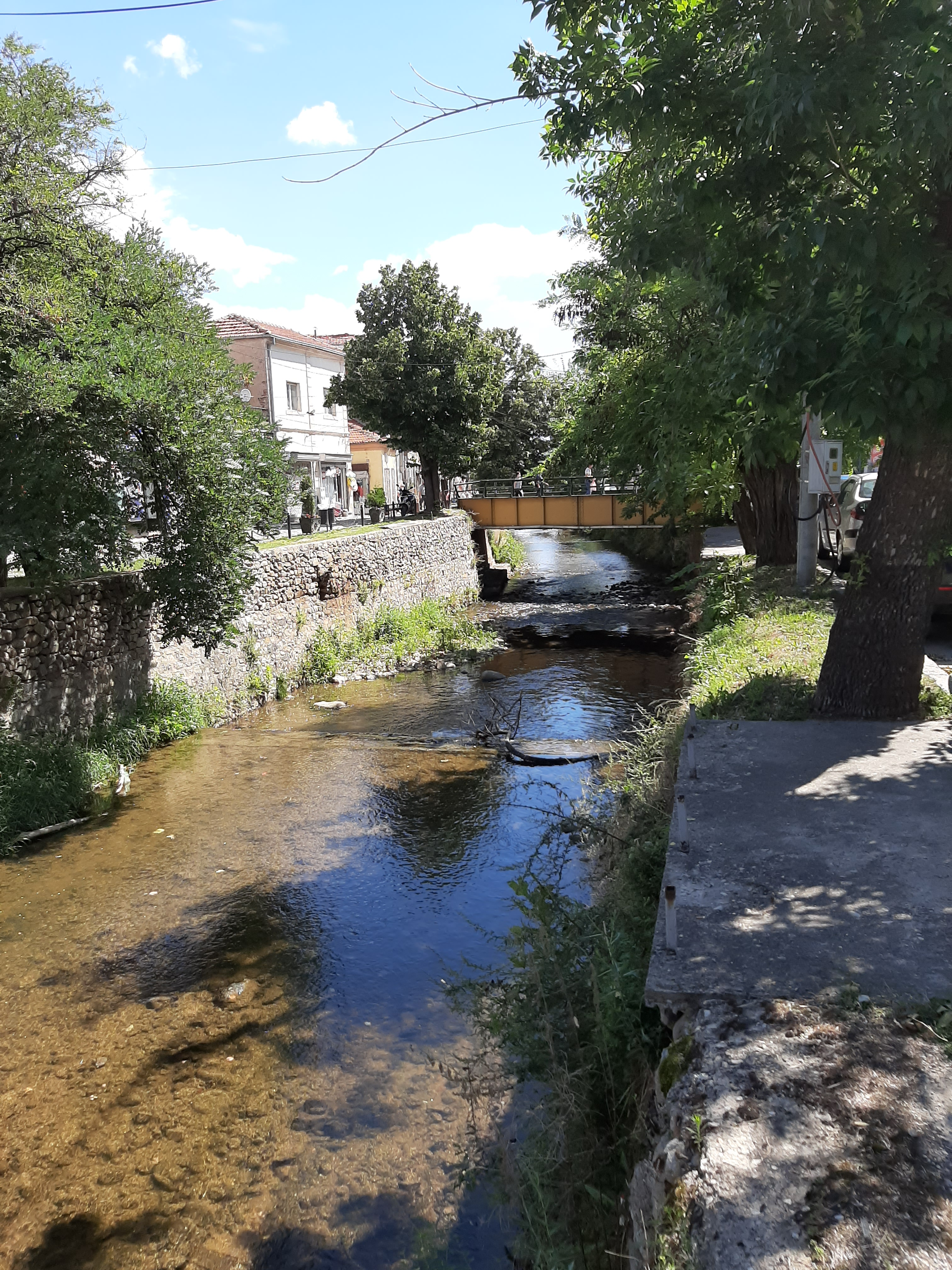 Ленски мост во Битола на реката Драгор